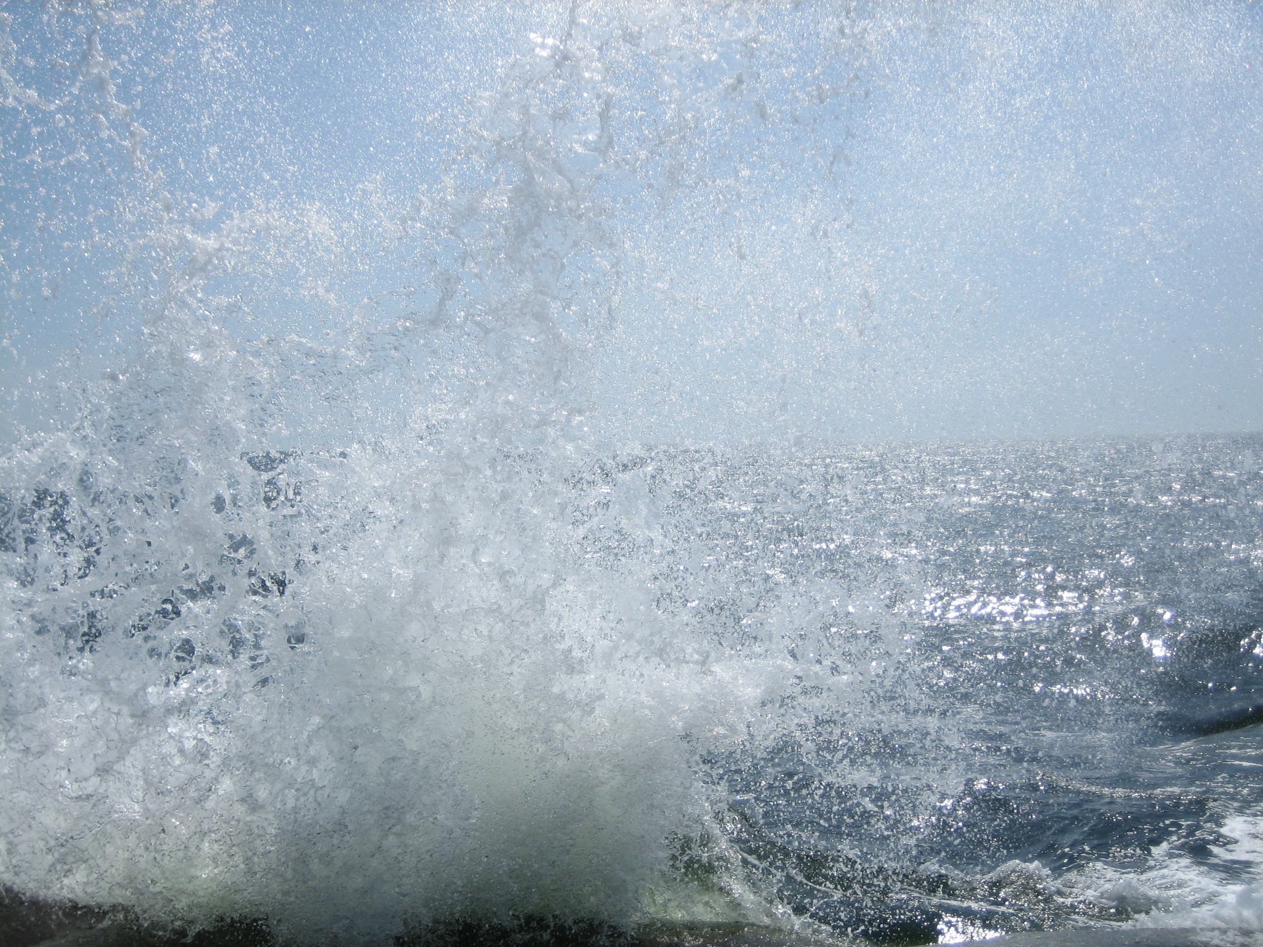 A wave hits a rock on Bengtskär, Finnish Gulf.